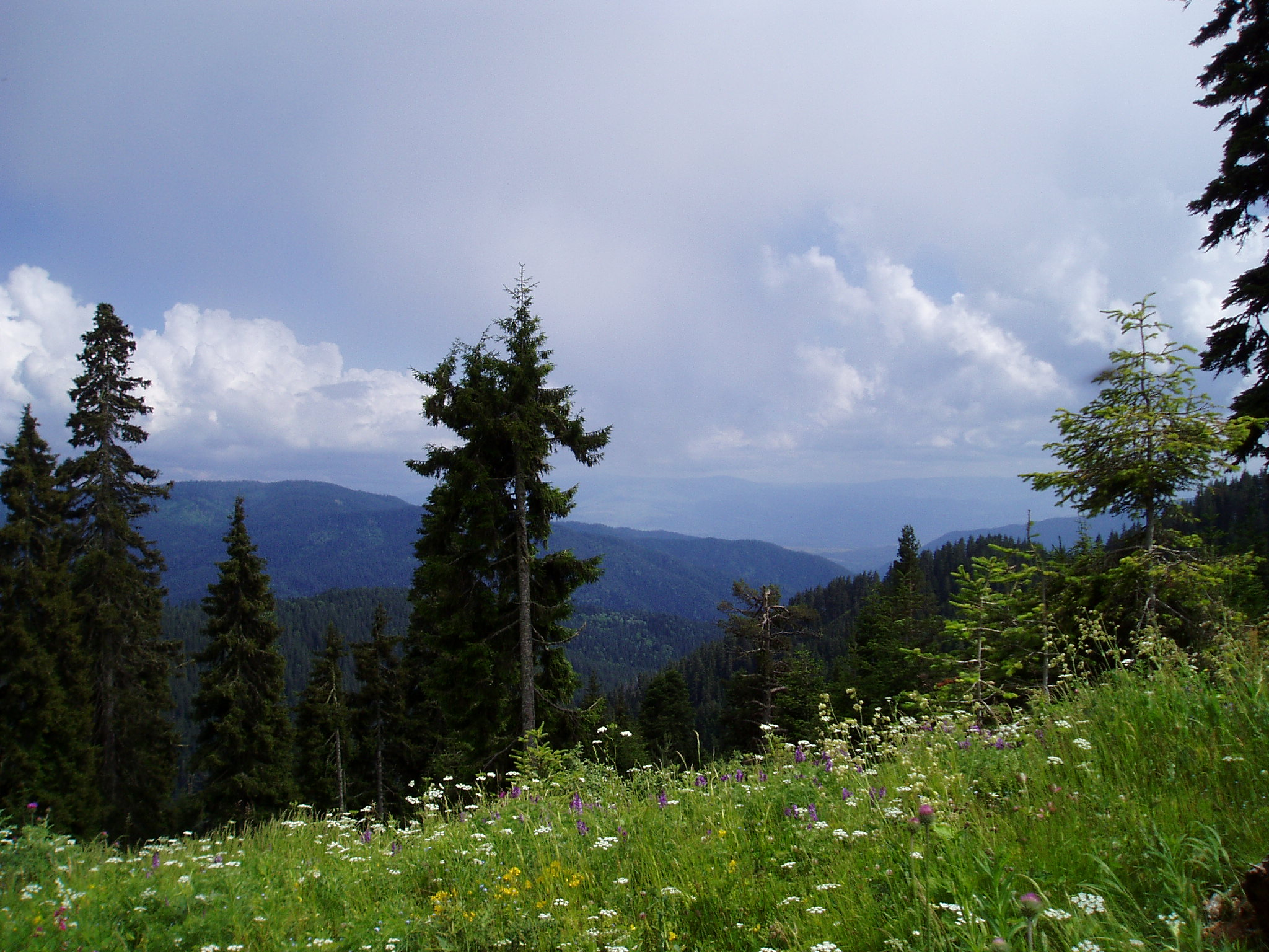 Borjomi-Kharagauli National Park. Trees are Picea orientalis.